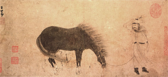 A Horse and Groom in the Wind, 22.7 x 49.0 cm. National Palace Museum, Taibei